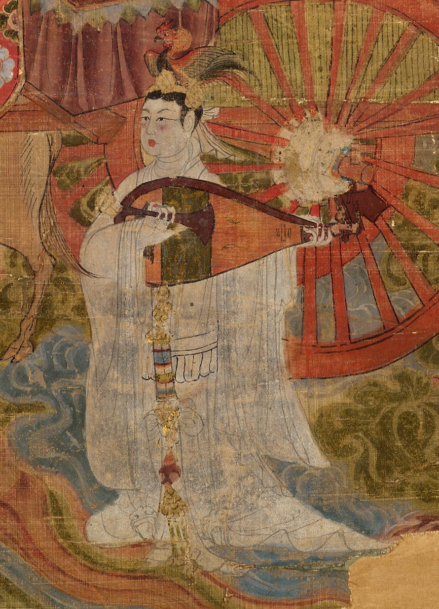 Female figure as the planet Venus from the painting "Tejaprabhā Buddha and the Five Planets" (熾盛光佛並五星圖), depicted as a beautiful lady playing the pipa (琵琶). Her skin tone is snow white. Incidentally it was part of the female aesthetic which was transferred to Japan and emulated by the Geishas. She has a bird ornament atop her head. Painting from Dunhuang's Caves of the Thousand Buddhas.